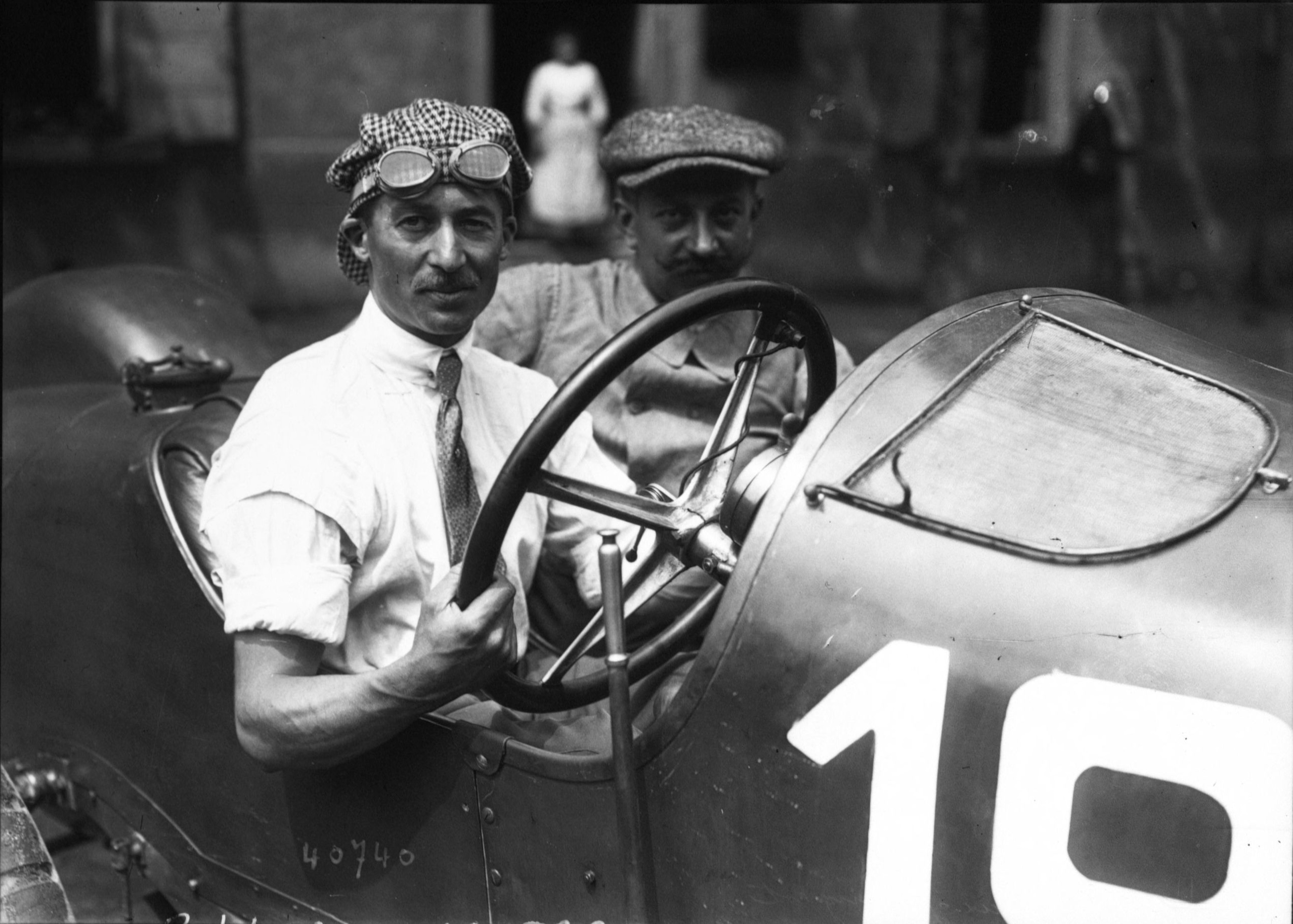 Jules Goux at the 1914 French Grand Prix